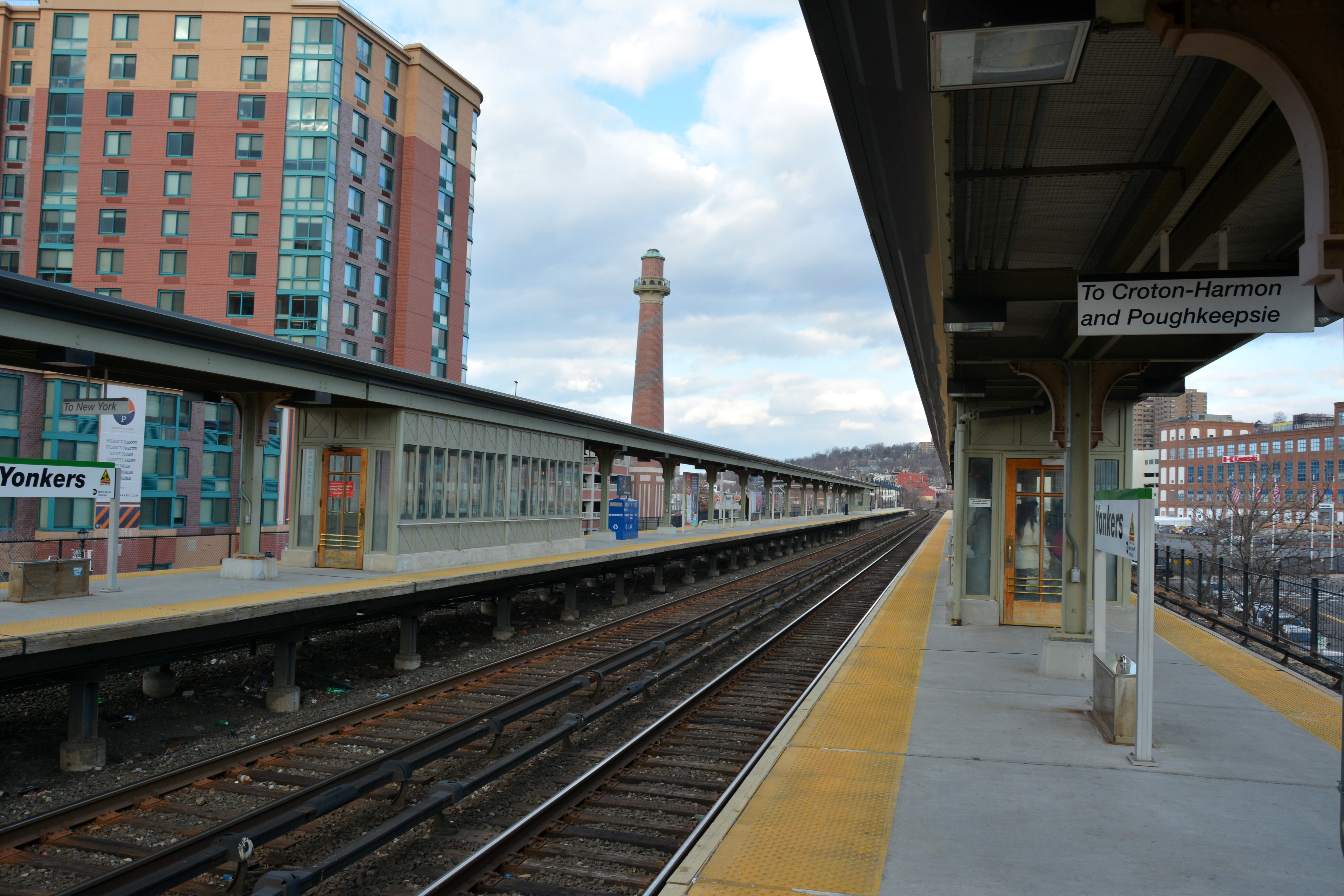 The Yonkers train station.